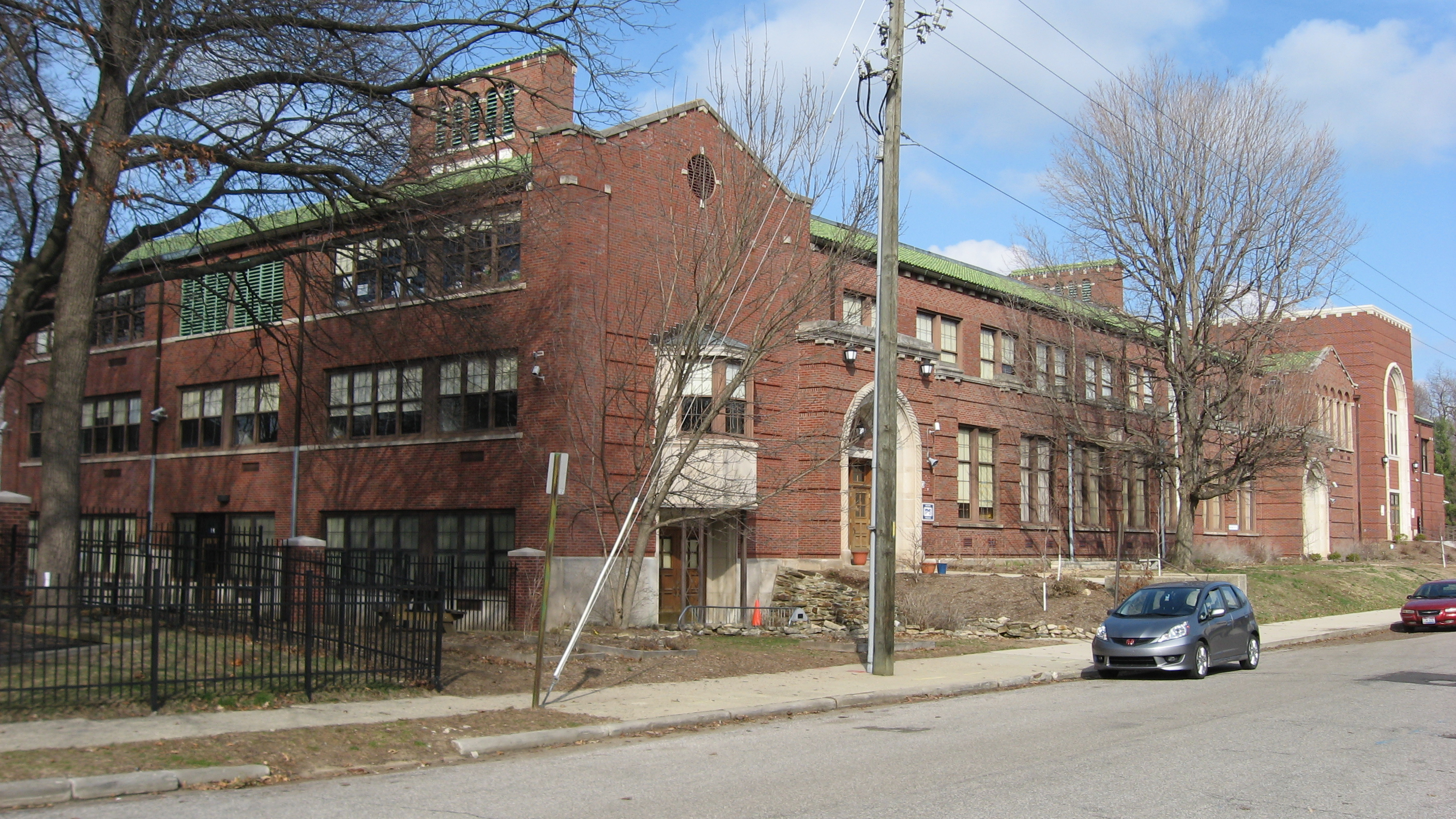 Front and western side of the Joseph J. Bingham Indianapolis Public School No. 84, located at 440 E. 57th Street and 5702 Central Avenue in Indianapolis, Indiana, United States. Built in 1928, it is listed on the National Register of Historic Places.